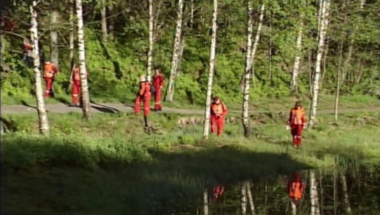 Search and rescue teams searching baneheia 2000.